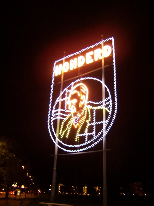 A light frame from the Lichtjesroute in Eindhoven, celebrating the 100th birthday of Frits Philips. Taken on the Winston Churchillaan.